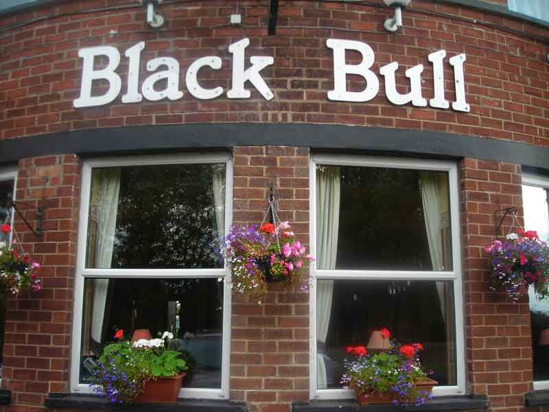 Photograph taken of the Black Bull at Barmston, East Riding of Yorkshire, Egand.